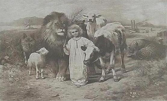 Image by artist William Strutt in 1896. Oil on canvas. Isaiah 11:6,7: The wolf will live with the lamb, the leopard will lie down with the goat, the calf and the lion and the yearling together; and a little child will lead them. The cow will feed with the bear, their young will lie down together, and the lion will eat straw like the ox.